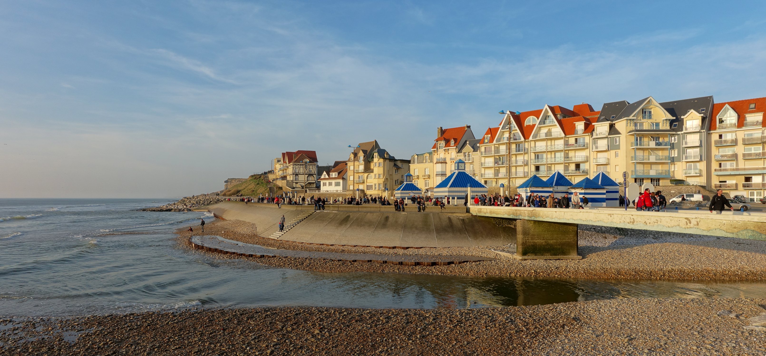 River mouth of the Wimereux in Wimereux, France.